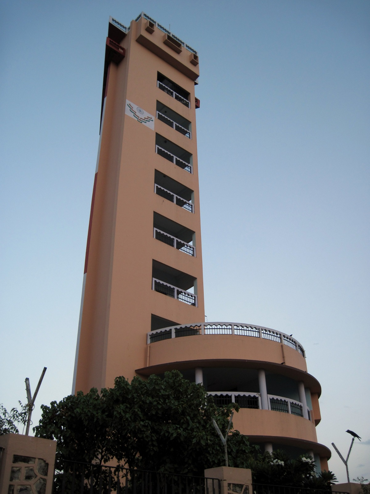 Chennai lighthouse is a famous landmark on the Marina Beach in Chennai, India. It was built by the East Coast Constructions and Industries in 1976 replacing the old lighthouse in the northern direction. The lighthouse was opened in January 1977. It also houses the meteorological department and is restricted to visitors. It is one of the few lighthouses in the world and the only one in India with an elevator